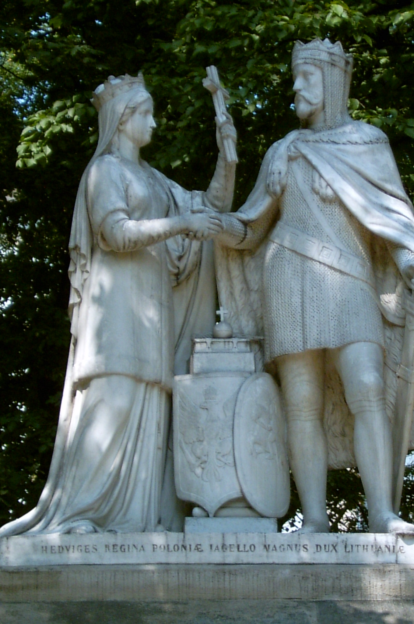 Jagiełło and Jadwiga Monument in Kraków, Poland